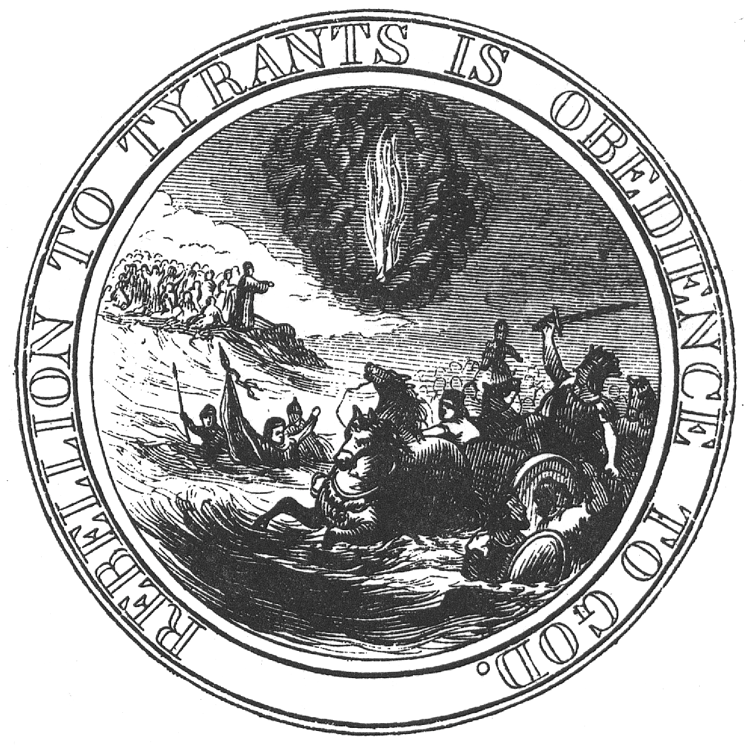 Interpretation of the first committee's design for the reverse of the Great Seal of the United States in 1776, which was never used. This was Benjamin Franklin's design, originally suggested for the obverse, but the committee chose Pierre Eugene du Simitiere's design for that side. This interpretation was made in 1856 by Benson J. Lossing. Franklin's design was:Moses standing on the Shore, and extending his Hand over the Sea, thereby causing the same to overwhelm Pharaoh who is sitting in an open Chariot, a Crown on his Head and a Sword in his Hand. Rays from a Pillar of Fire in the Clouds reaching to Moses, to express that he acts by Command of the Deity. Motto, "Rebellion to Tyrants is Obedience to God." Thomas Jefferson, a member of the committee, liked the motto enough to later use it on his personal seal.